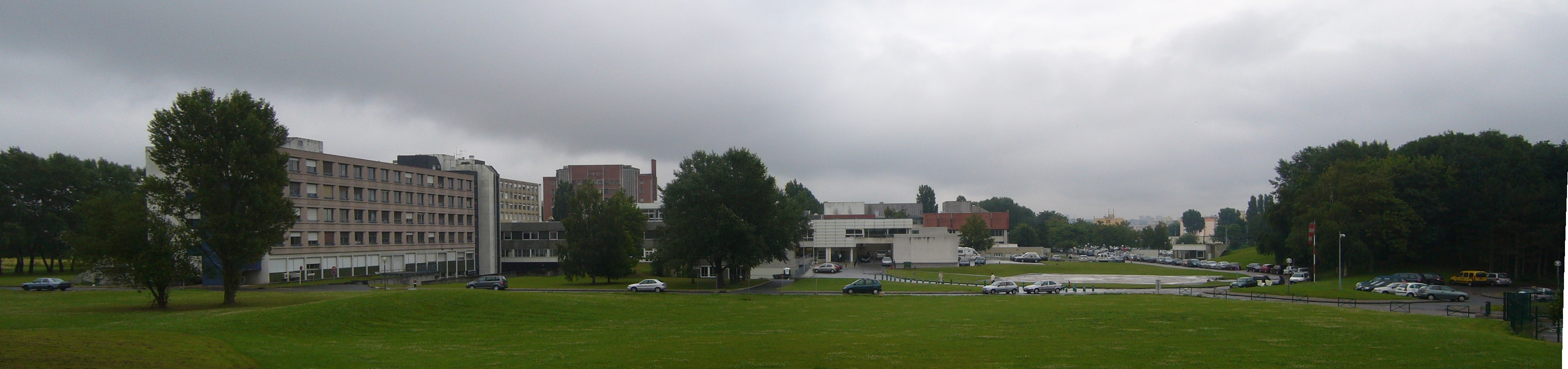 Intercities Robert Ballanger's hospital in Aulnay-sous-Bois / Villepinte / Sevran (France)/ Hôpital intercommunal Robert Ballanger (Aulnay-sous-Bois/Villepinte/Sevran - France)